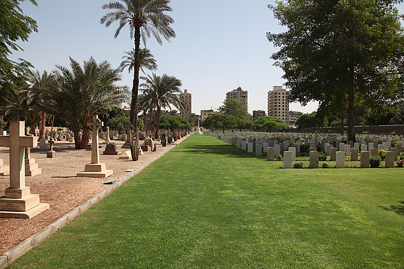 Commonwealth cemetery, Old Cairo, Egypt